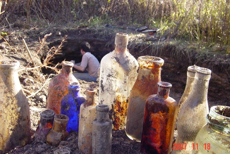 Dumpdiggers Dump Digging refers to the practice of bottle diggers and relic hunters excavating century old historic but sadly forgotten Colonial age dumps. More precisely, Dumpdiggers are scholars that use antique maps and genealogy data, museums and municipal and federal archives to research historic properties, probe sites, and then systematically disturb century old rubbish deposits in a quest for buried antiques & collectibles. They find things like early American pottery, antique glass bottles and stoneware, saloon pipes and porcelain dolls heads, civil war relics and British Navy relics, military collectibles, coins, toys and tools.